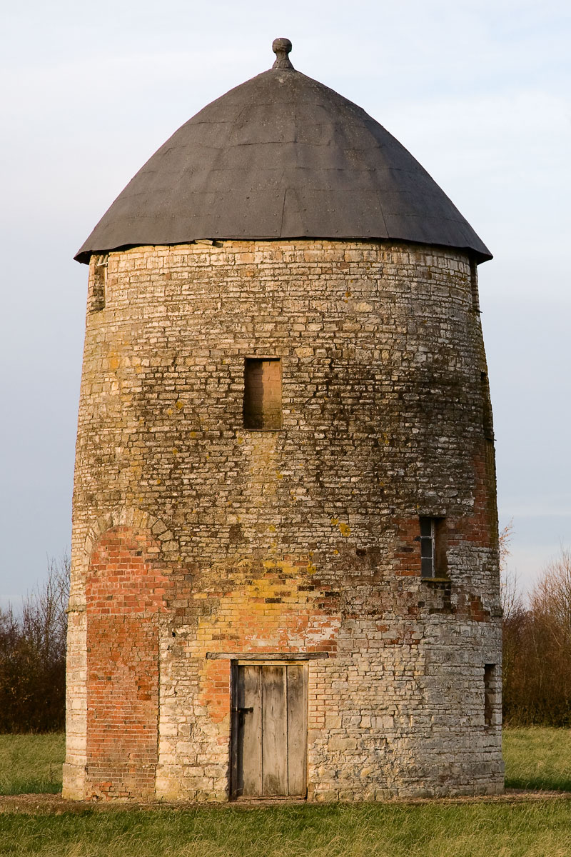 18th-century tower mill at Pittern Hill, Kineton, Warwickshire, England